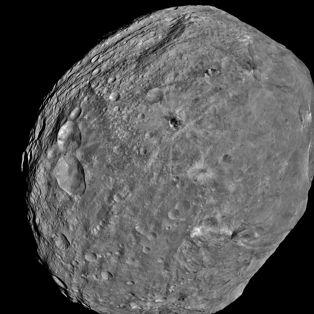 Full-frame image of Vesta. NASA's Dawn spacecraft obtained this image of the giant asteroid Vesta with its framing camera on July 24, 2011. It was taken from a distance of about 3,200 miles (5,200 kilometers).